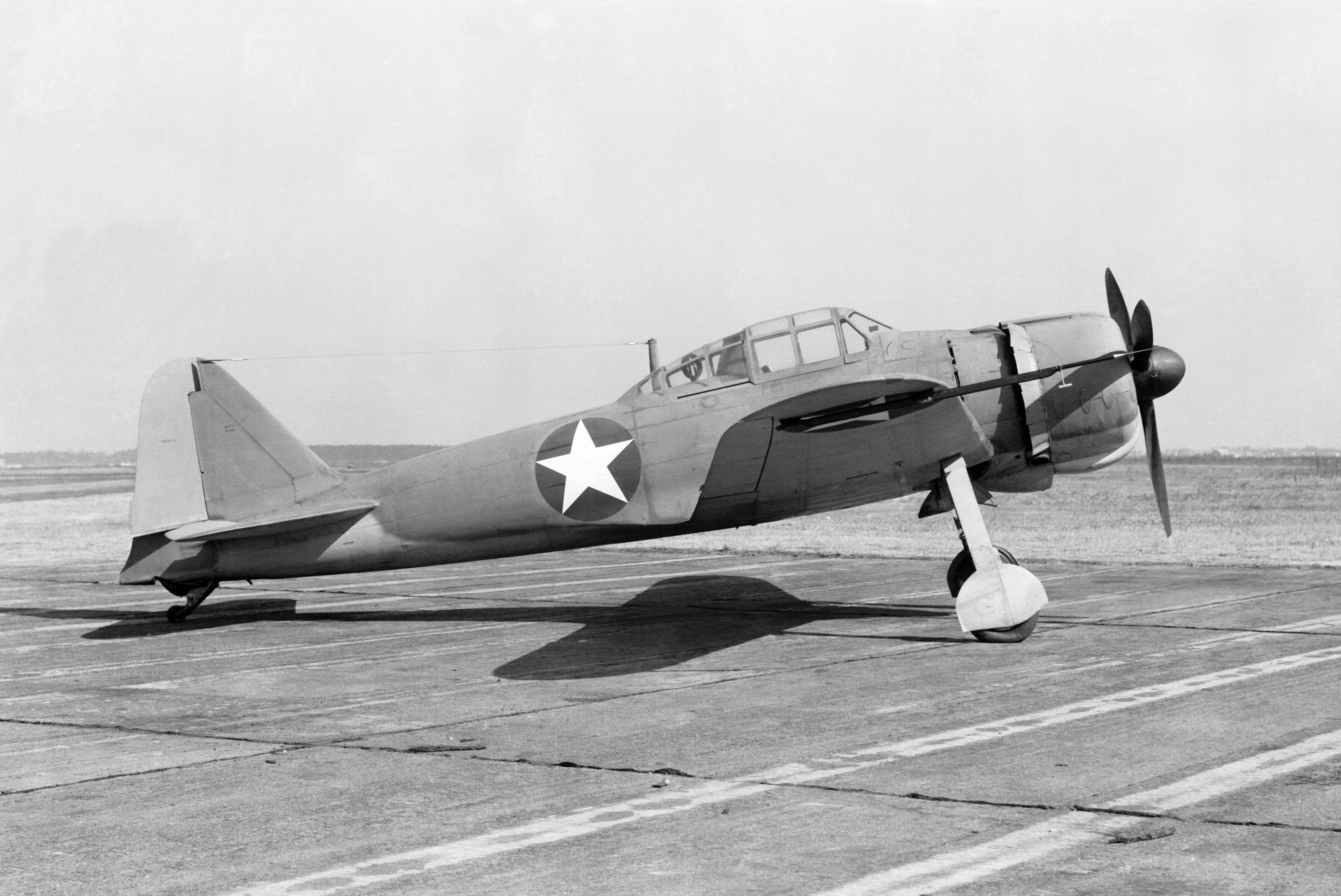 A Mitsubishi A6M2 Zero fighter at the NACA Langley Reserch Center in Hampton Virginia (USA), in March 1943. This plane had been captured at Akutan Island, Alaska, in August 1942. It was repaired in September 1942 and after limited flying on the U.S. West Coast, the Zero arrived at Langley for installation of test equipment prior to in-depth flight testing by the U.S. Navy at Naval Air Station Patuxent River, Maryland (USA). The plane was destroyed in an accident in 1945.